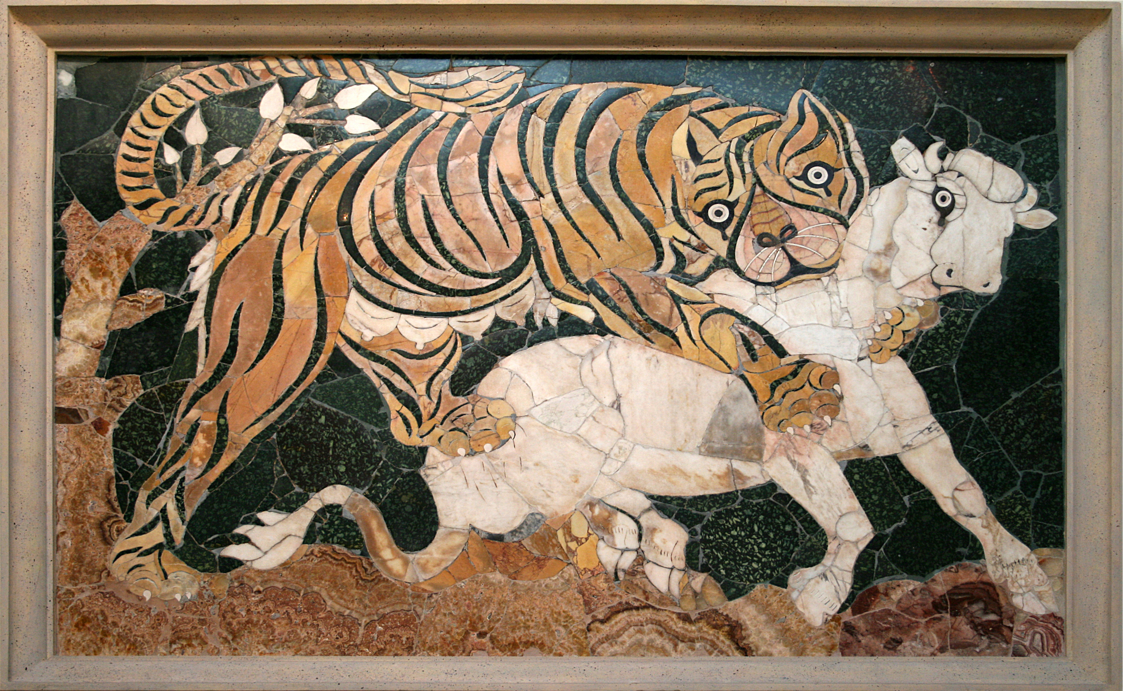 Opus sectile panel: tiger attacking a calf. Coloured marbles, Roman artwork from the second quarter of the 4th century CE. From the basilica of Junius Bassus on the Esquiline Hill.